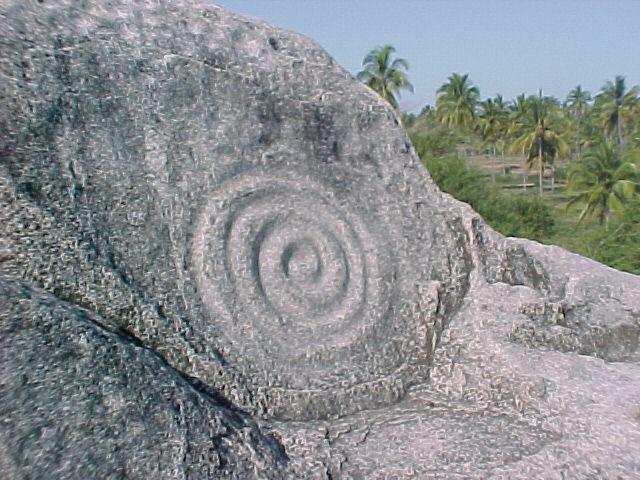 Petroglifo encontrado en Tomatlán